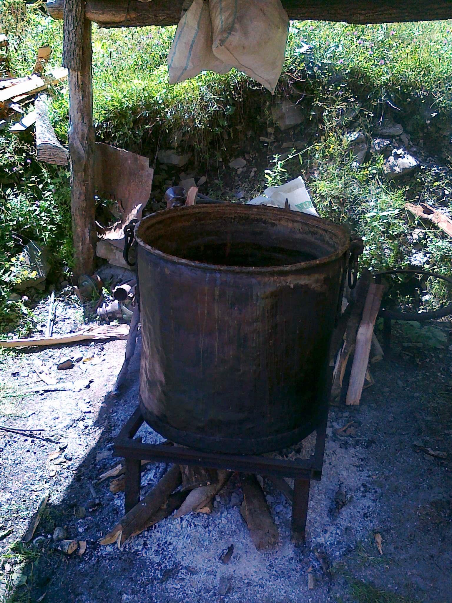 Beer making in Khevsureti